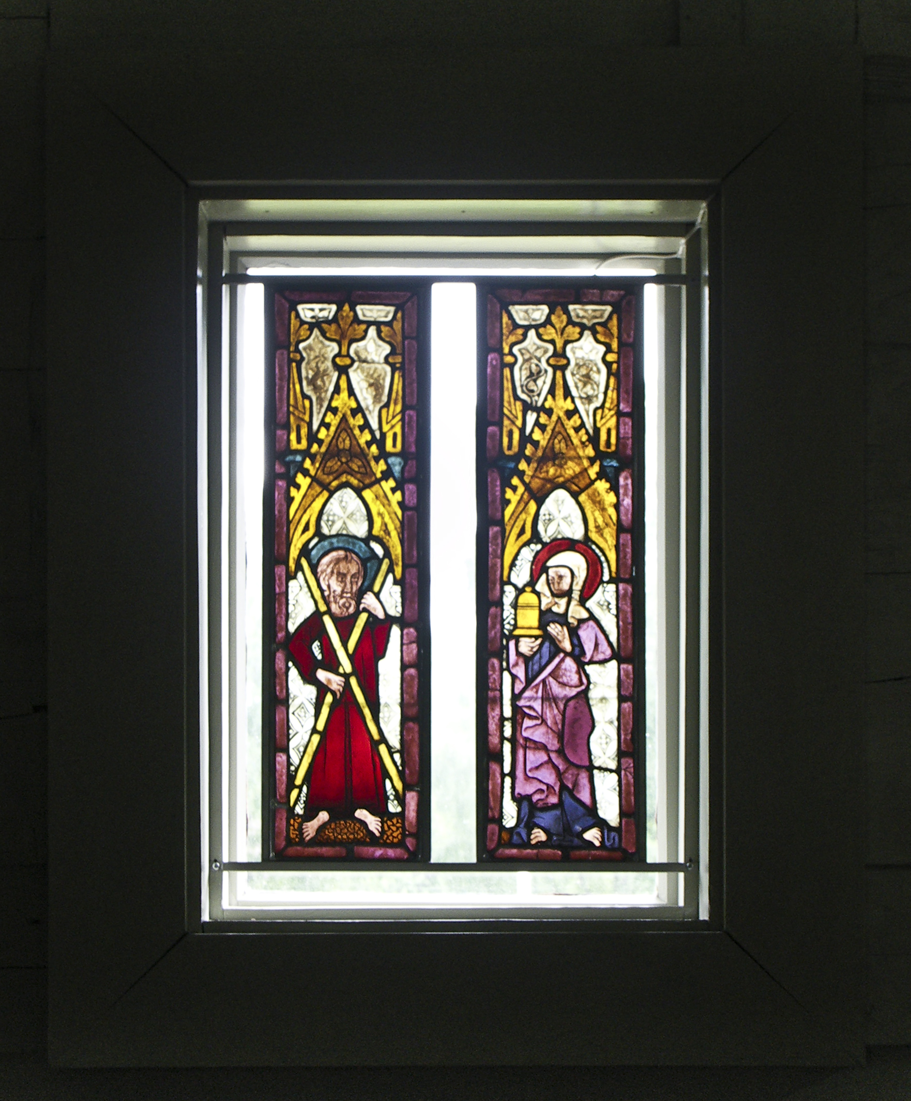 Tångeråsa medieval wooden church, Örebro län.